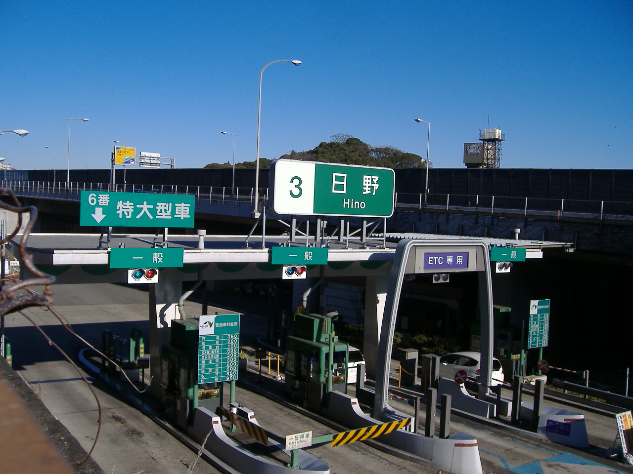 Toll gates at Hino Interchange in Yokohama City, Japan